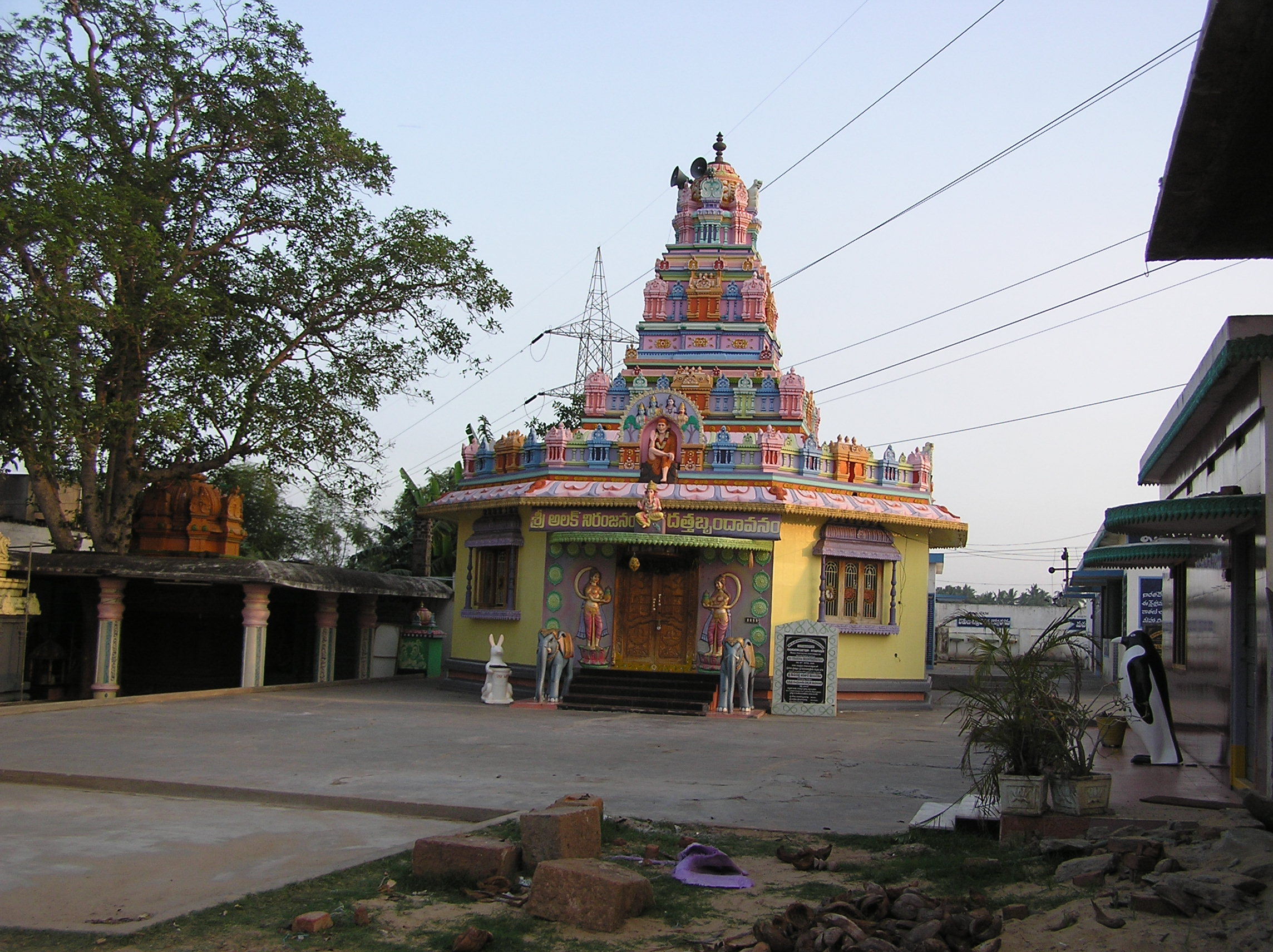 Kukkuteswara swamy temple inside